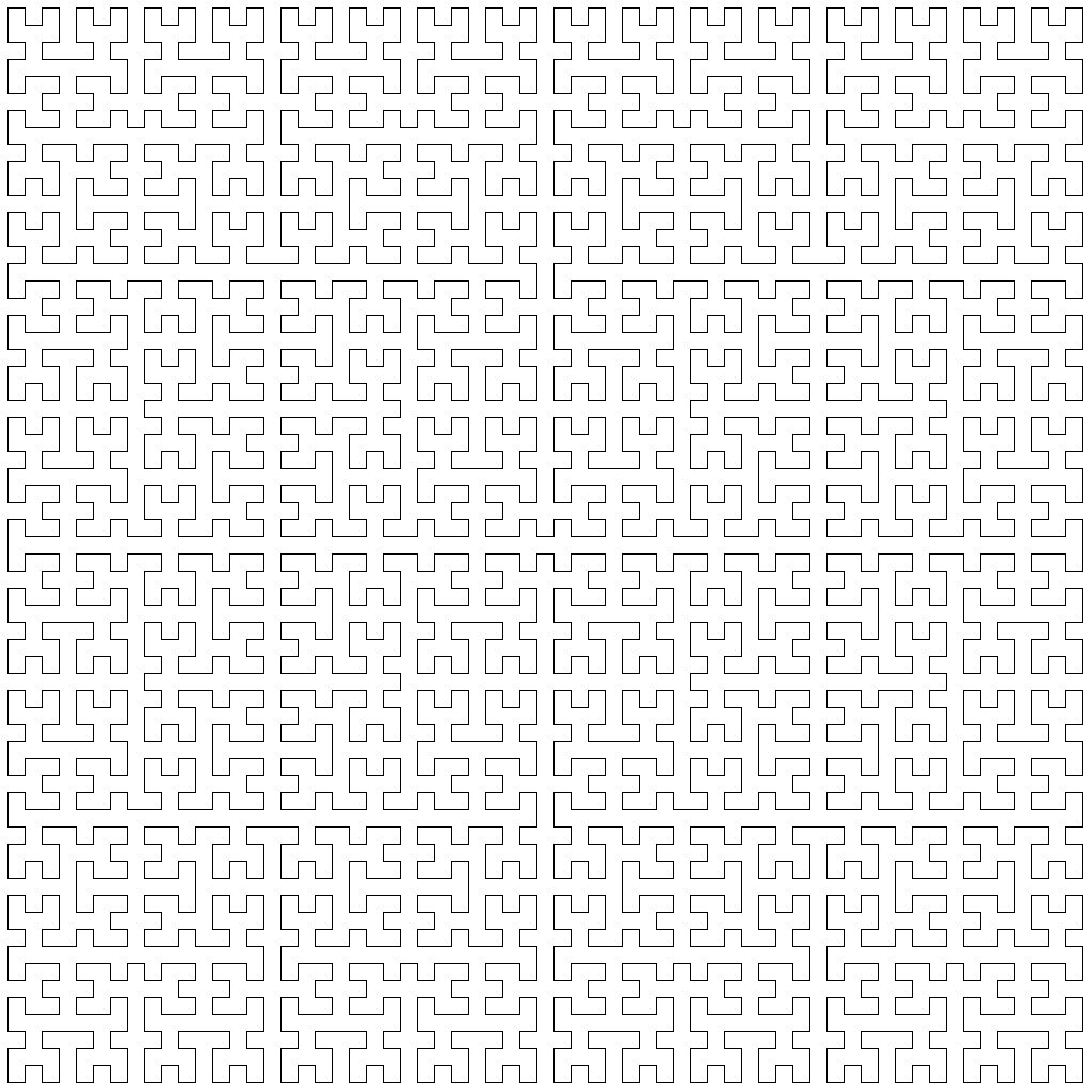 Hilbert Curve L5